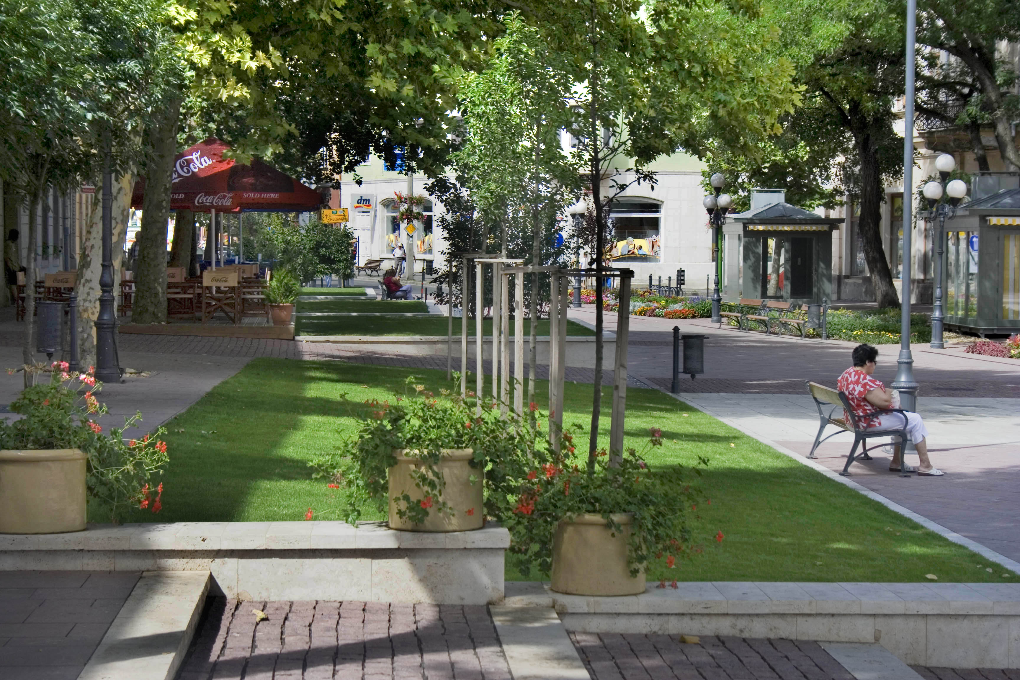 Sátoraljaújhely - Lajos Kossuth Square